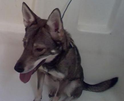 Picture of a Coyote-German Shepard hybrid